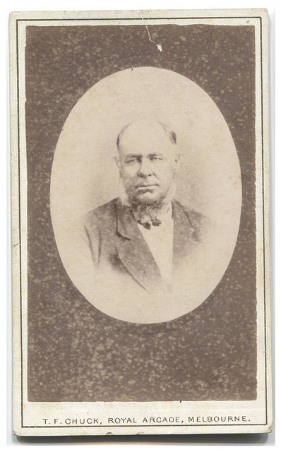 Photo of John Bateman during one of his trips to Melbourne